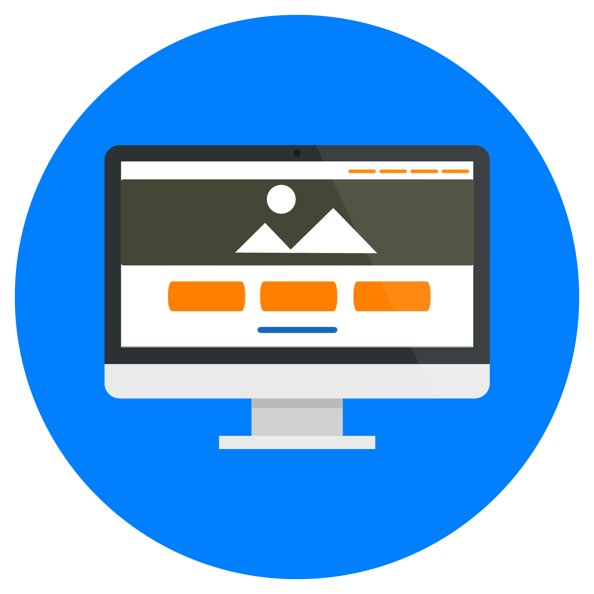 Digital Marketing